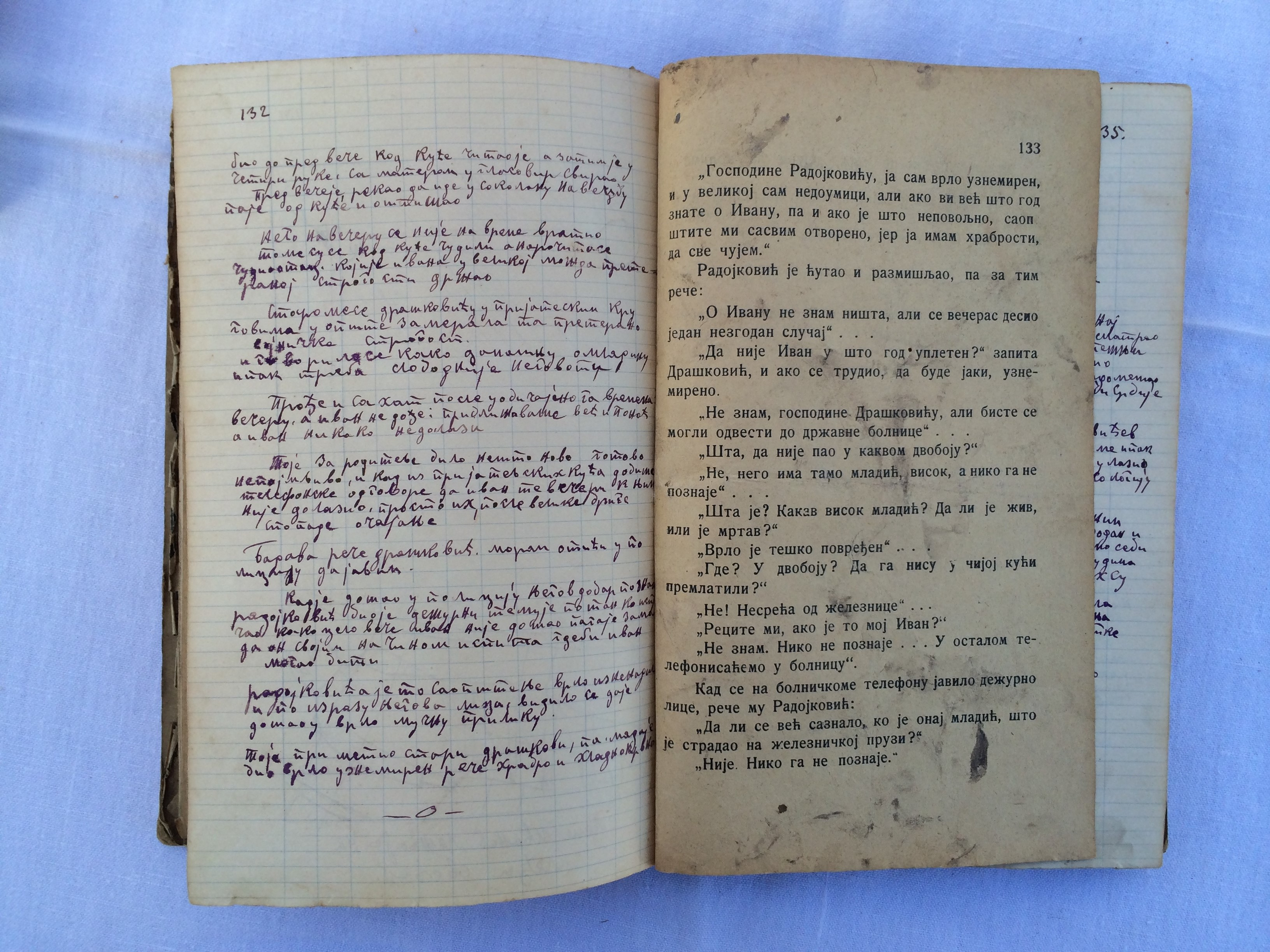 А novel from the First Balkan war 1912-1913; Missing pages and text were added by Luka Lazić, owner of the Lazić Library at the time; It can be found in the Society for Culture, Art and International Cooperation Adligat in Belgrade, Serbia. Српски (ћирилица): Роман из Првог балканског рата 1912-1913; Странице и текст који недостаје допунио је Лука Лазић, тадашњи власник Библиотеке Лазић; Налази се у Удружењу за културу, уметност и међународну сарадњу Адлигат у Београду.